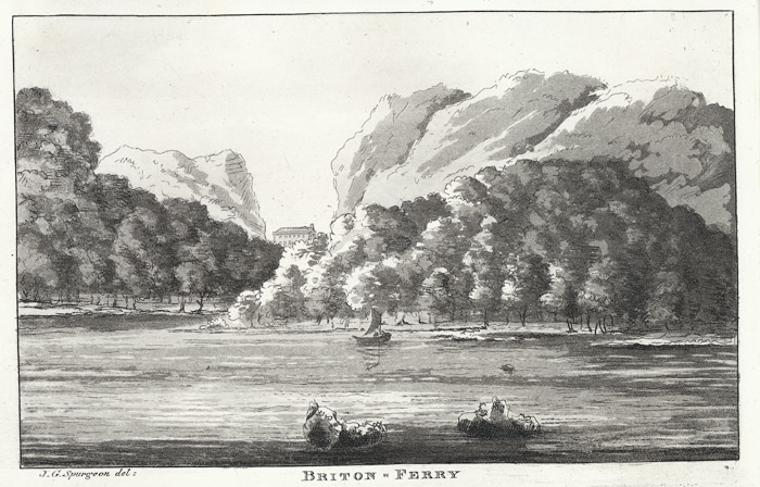 A view of a large mansion, partly hidden by trees at Briton Ferry. A small boat is in the foreground.